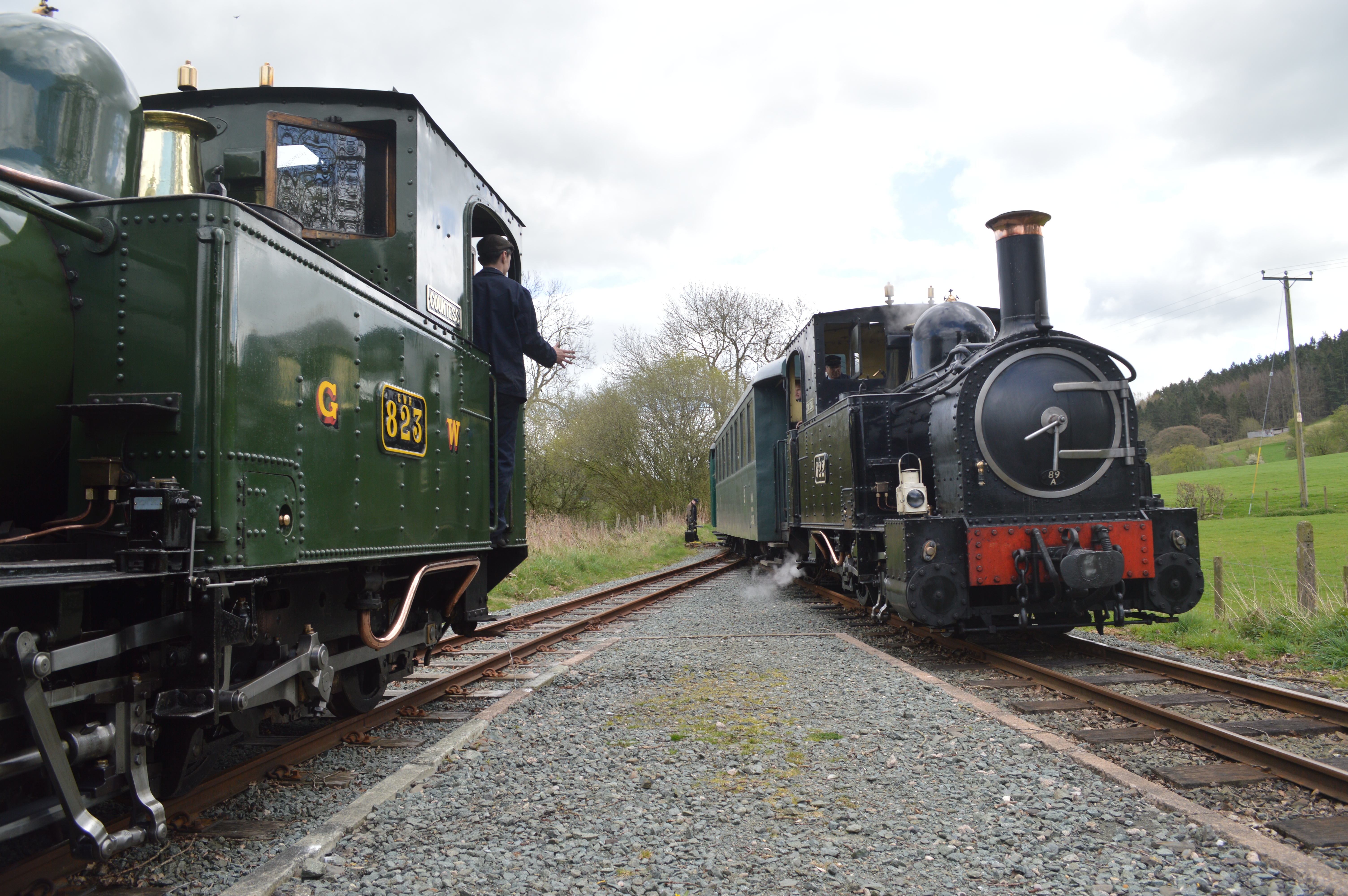 Welshpool and Llanfair Light Railway No. 2, Countess (GWR 823 - left), and No 1, The Earl (GWR 822 - right), passing at Cyfronydd railway station.